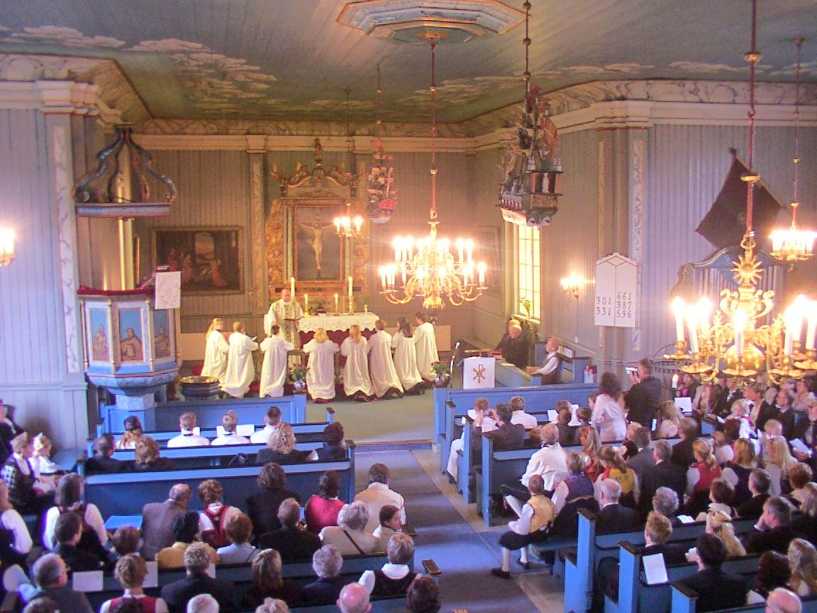 Confirmation in Lunder Church at Sokna, South Norway